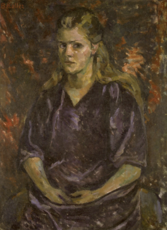 Portrait of Anna Mahler